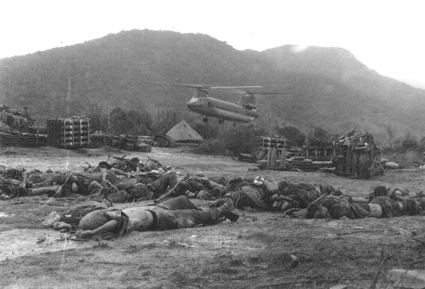 Dead North Vietnamese soldiers on LZ Bird, Chinook rising above the field, Vietnam